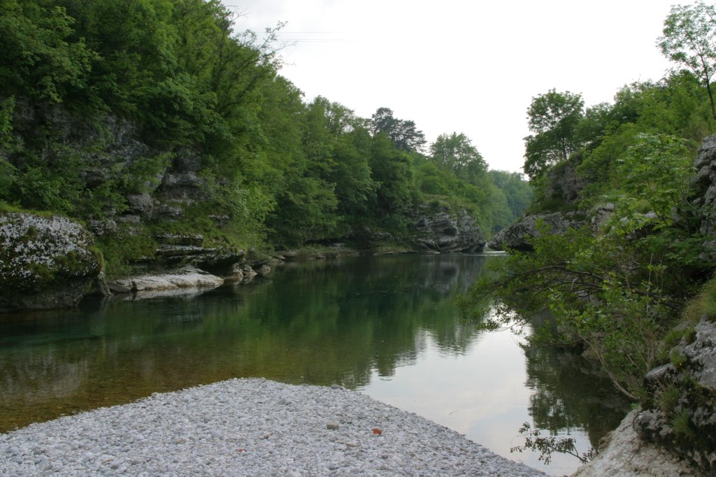 Natisone